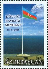 N 1232 - 50 qapik – There are pictured the National Flag Square in Baku city on the stamp.